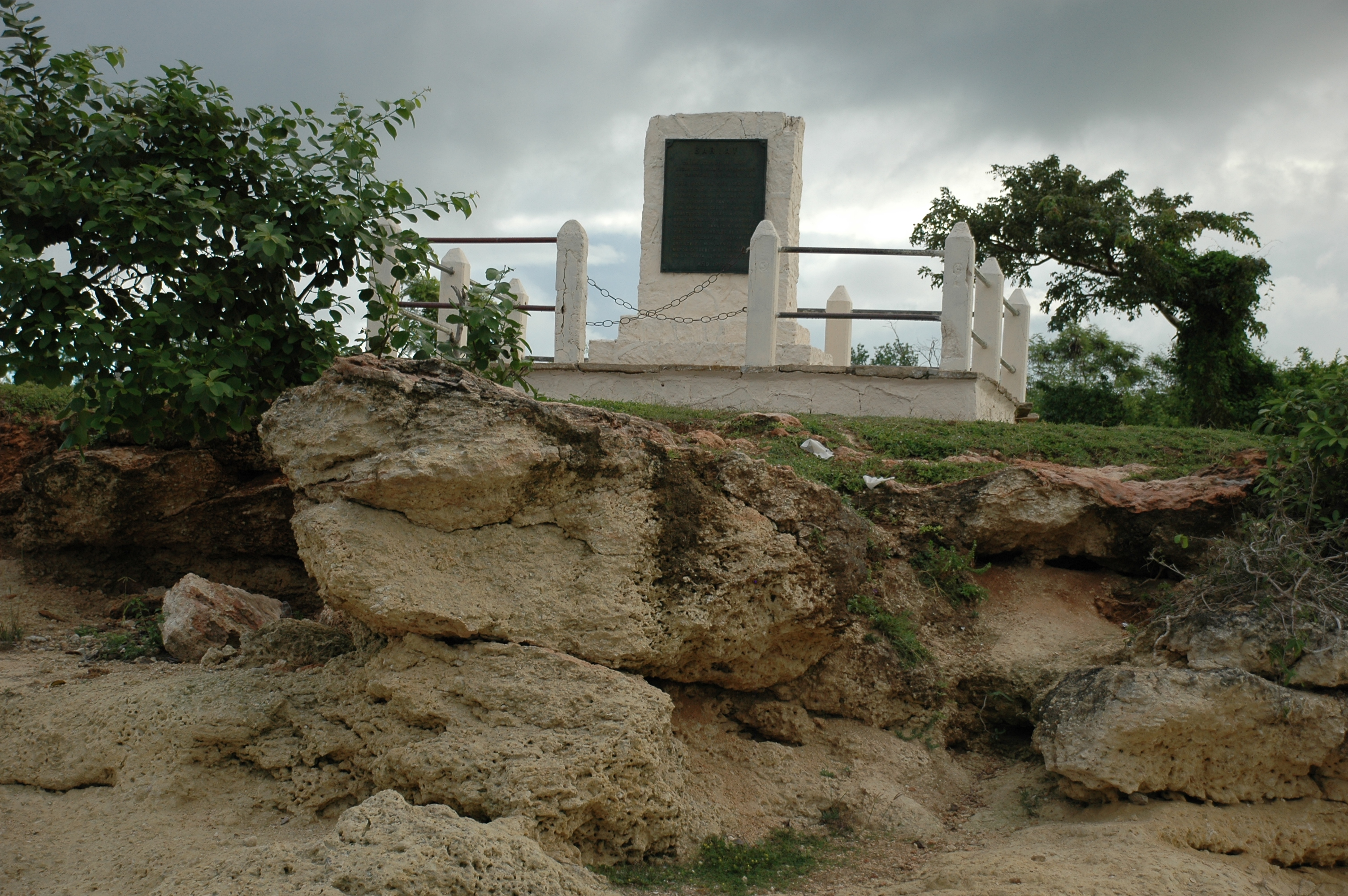 Hubicado exactamente al lado opuesto al sitio turistico de Cayo Bariay. El sitio al que el gobierno cubano refiere el desembarco (Playa de Cayo Bariay) es inexacto. El desembarco se produjo segun apuntes de referencia en la bitacora de Colon justamente donde esta enclavado el obelisco.